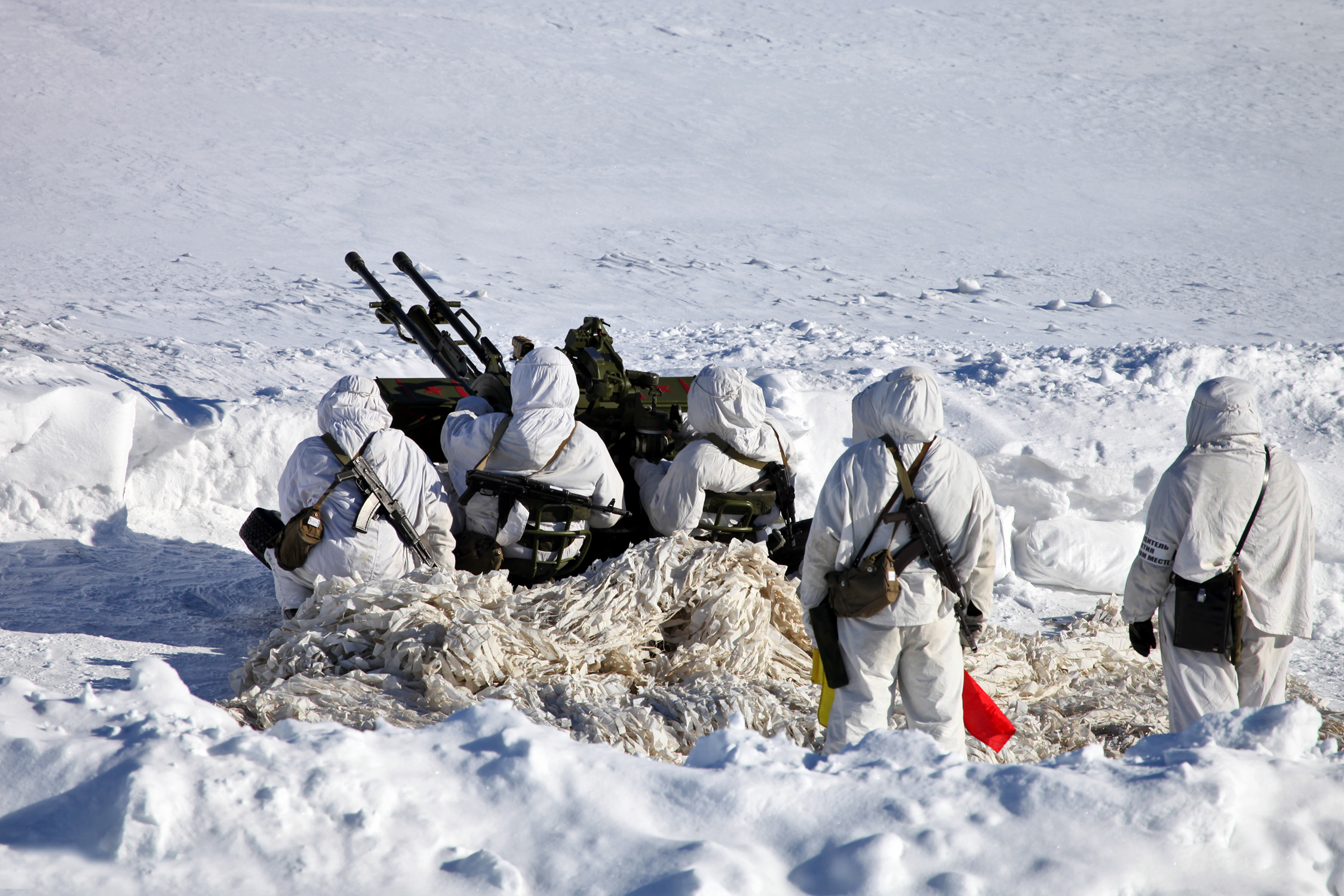 ZU-23